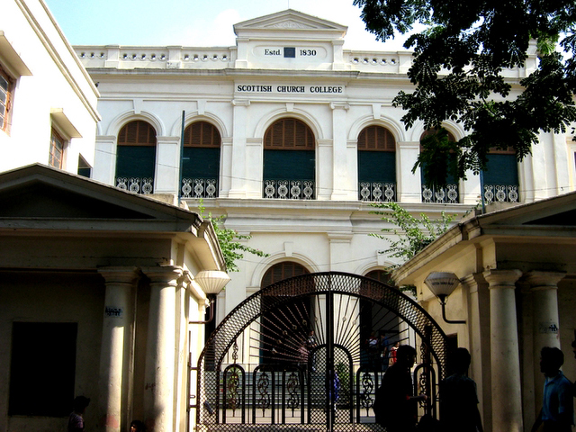 Scottish church college in Kolkata.